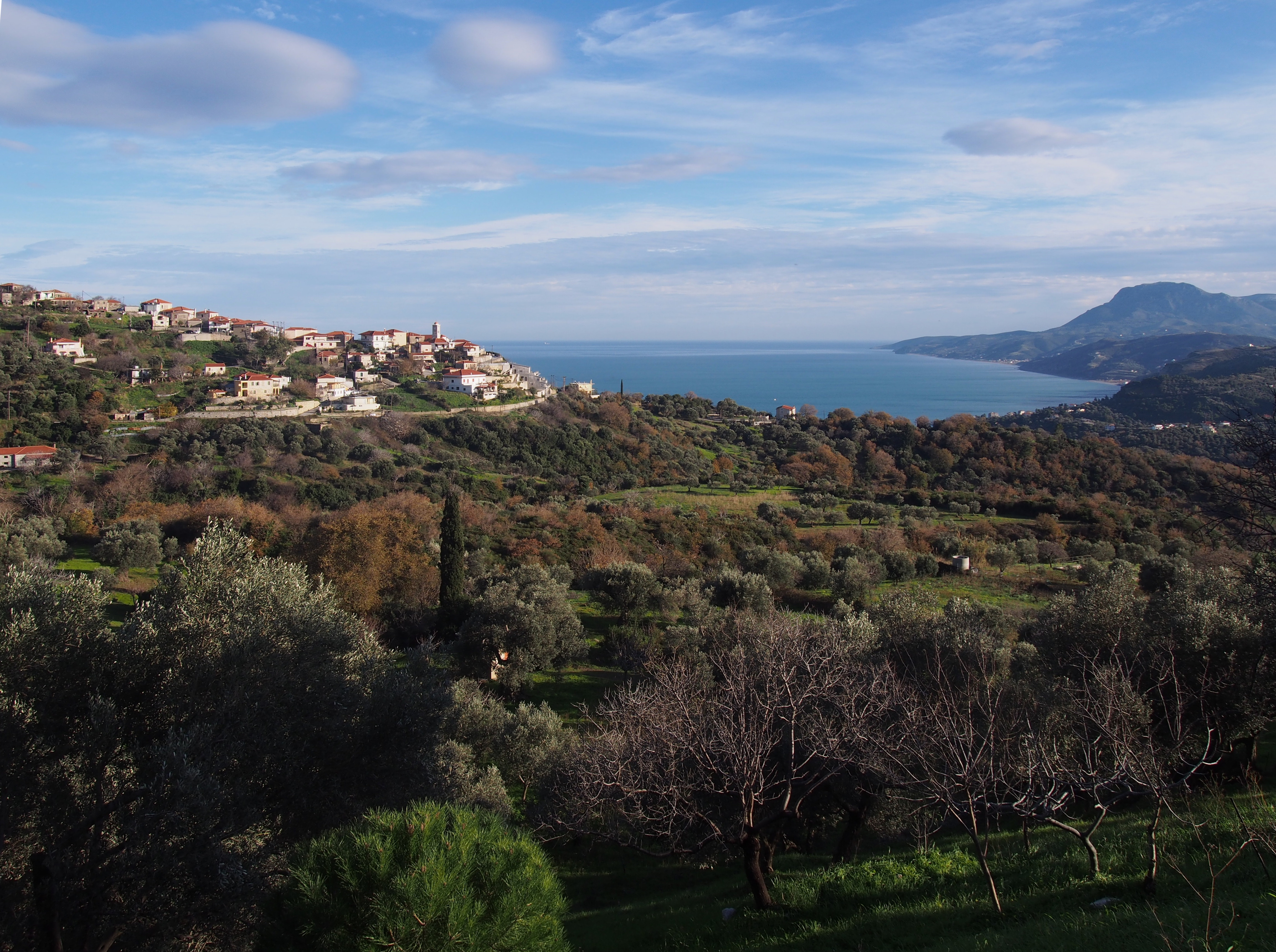 The village of Enoria and the cape of Oktonia, central Euboea, Greece.